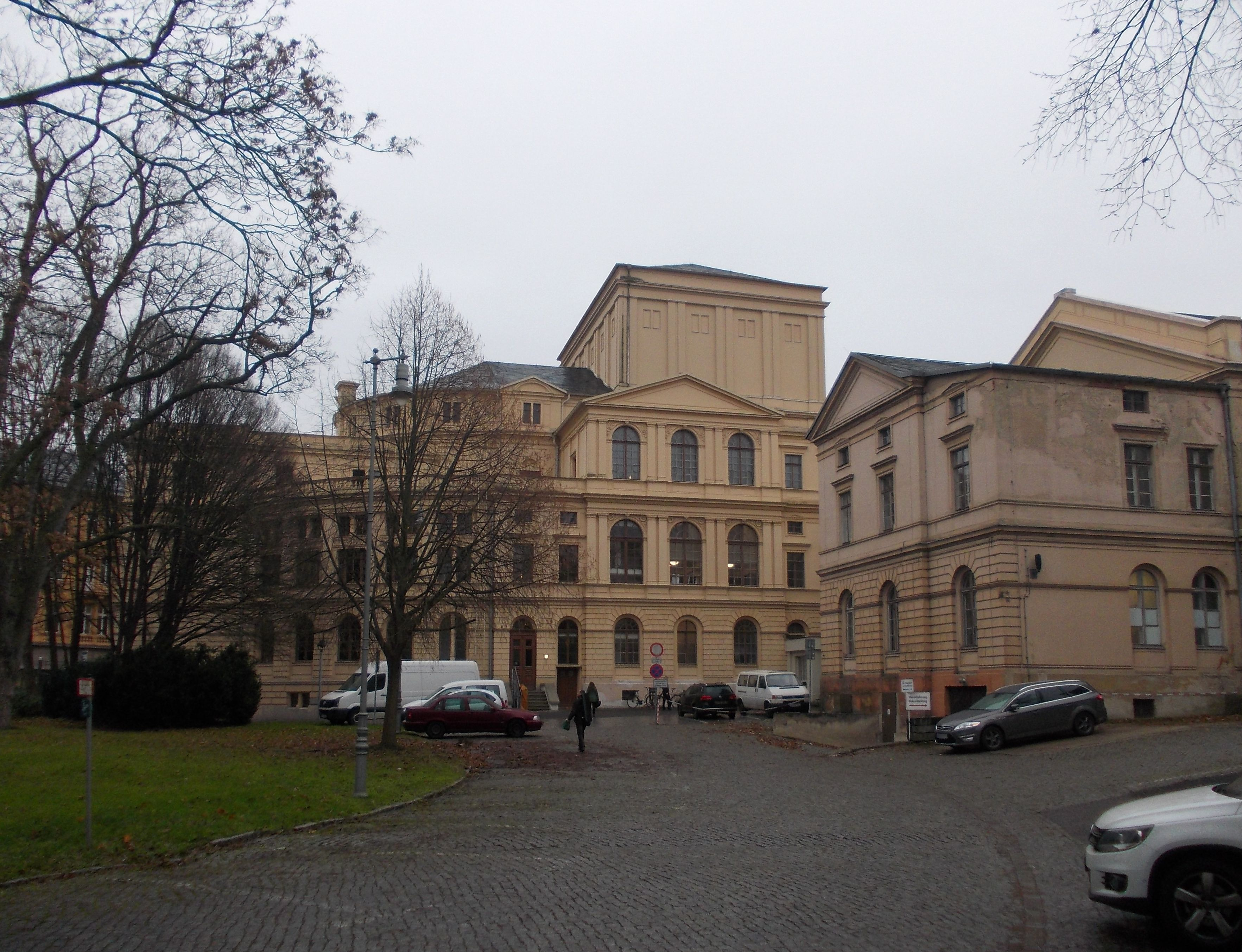 The theatre in Altenburg (Thuringia)